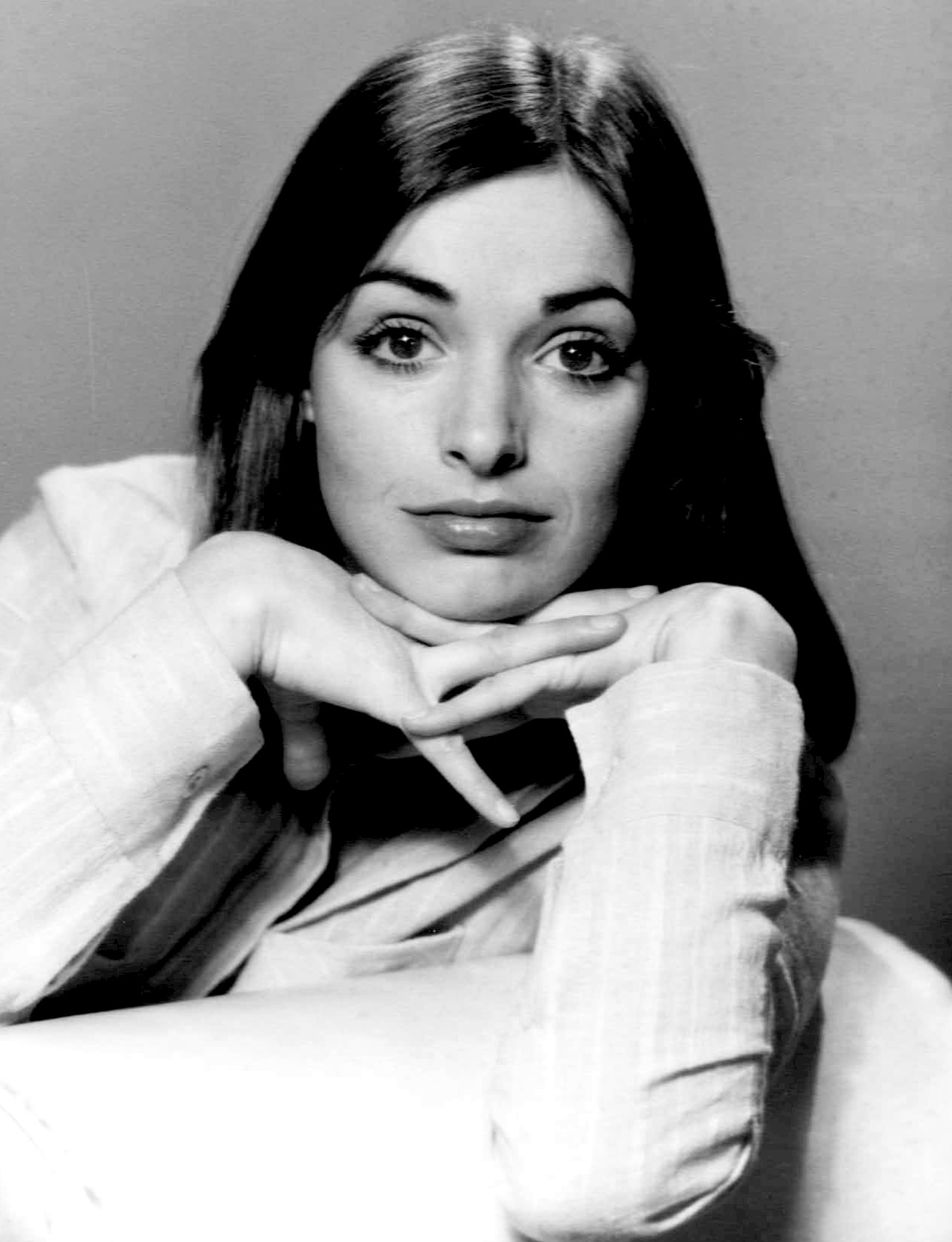 Photo of actress Adrienne LaRussa as Brooke Hamilton on Days of our Lives.